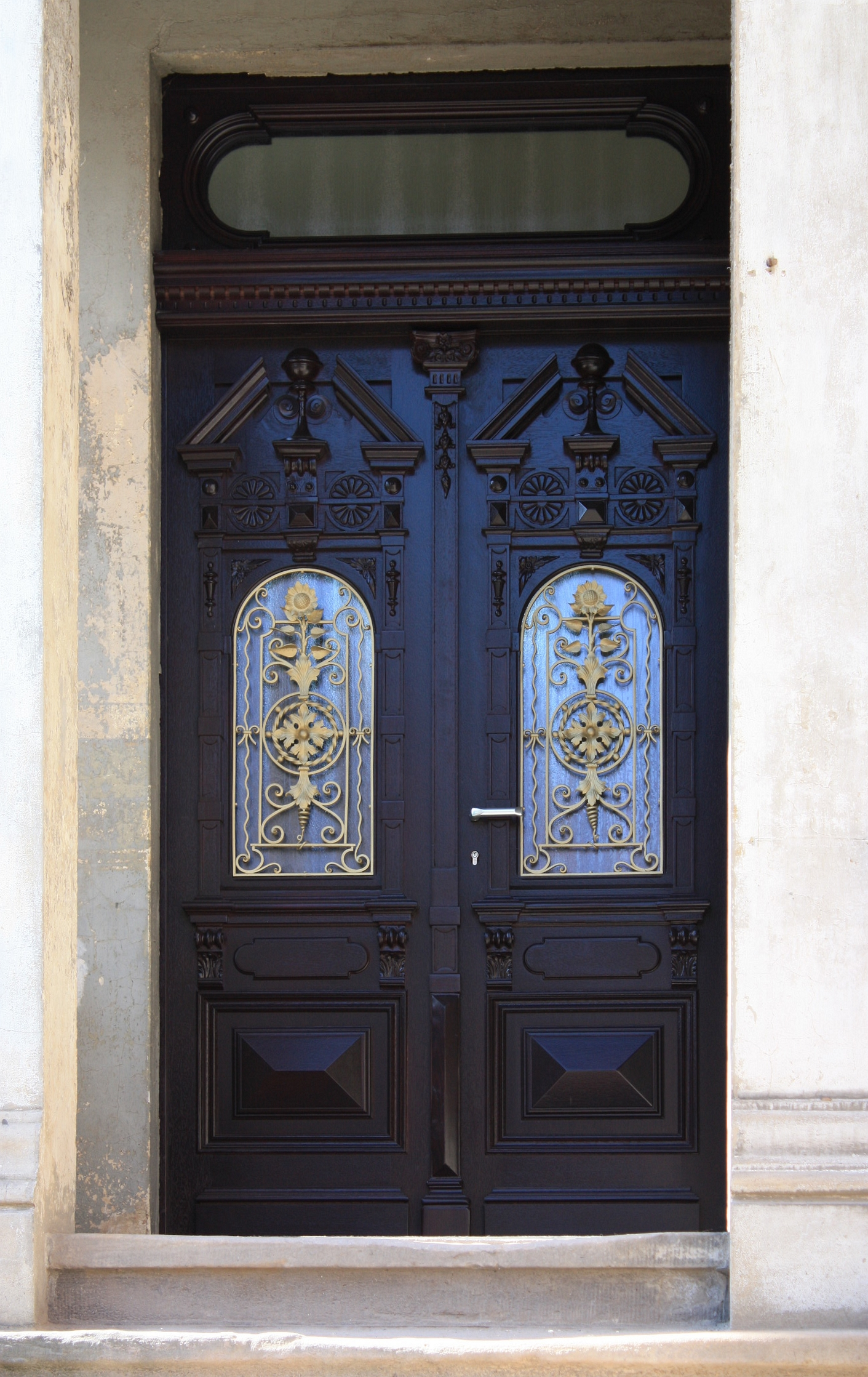 This is a photograph of an architectural monument.It is on the list of cultural monuments of Quedlinburg Quedlinburg: Donndorfstraße 1 Detail